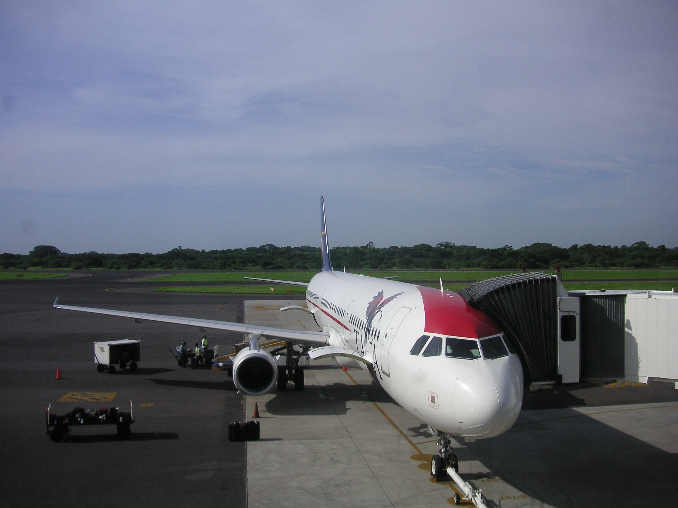 Airbus A320 Grupo TACA en aeropuerto de El Salvador